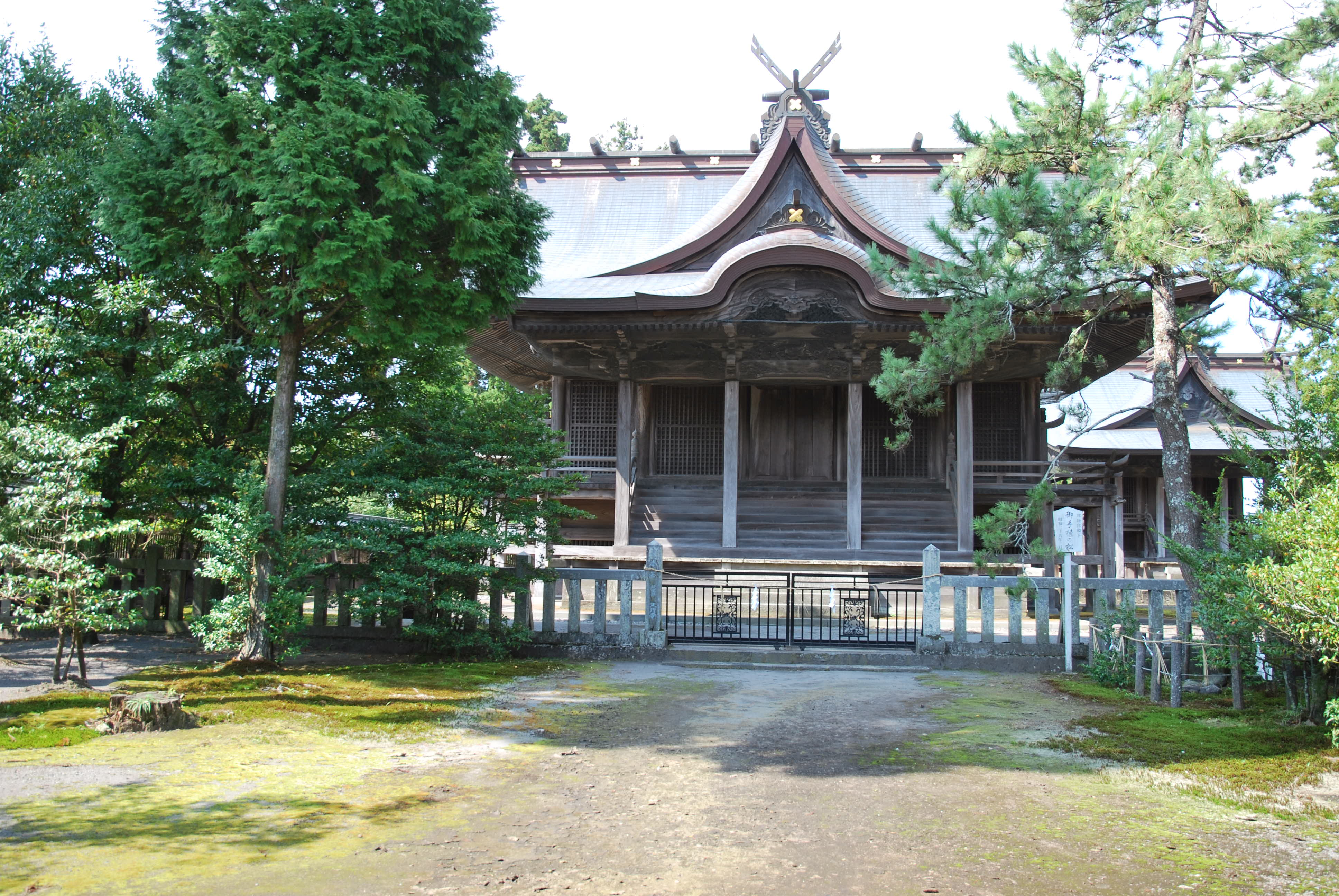 Ichi-no-shinden (Japan's national important cultural property), Aso-jinja